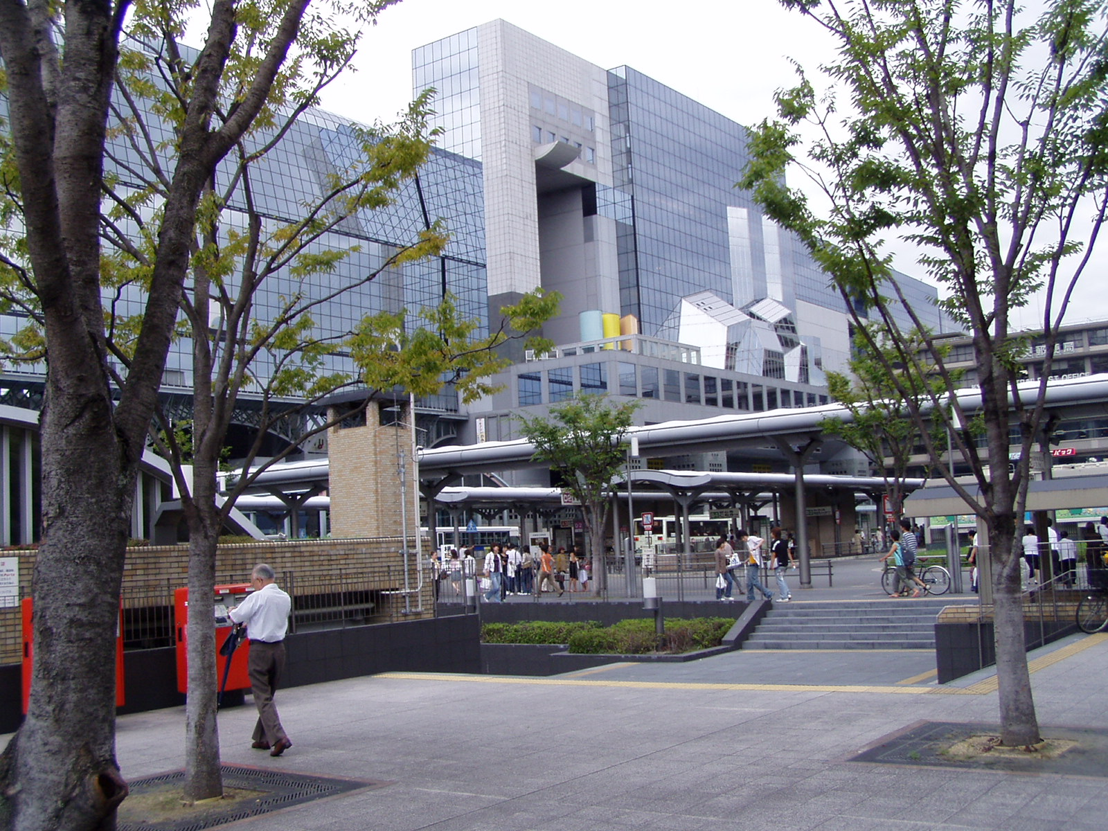 Kyoto JR Station, facade